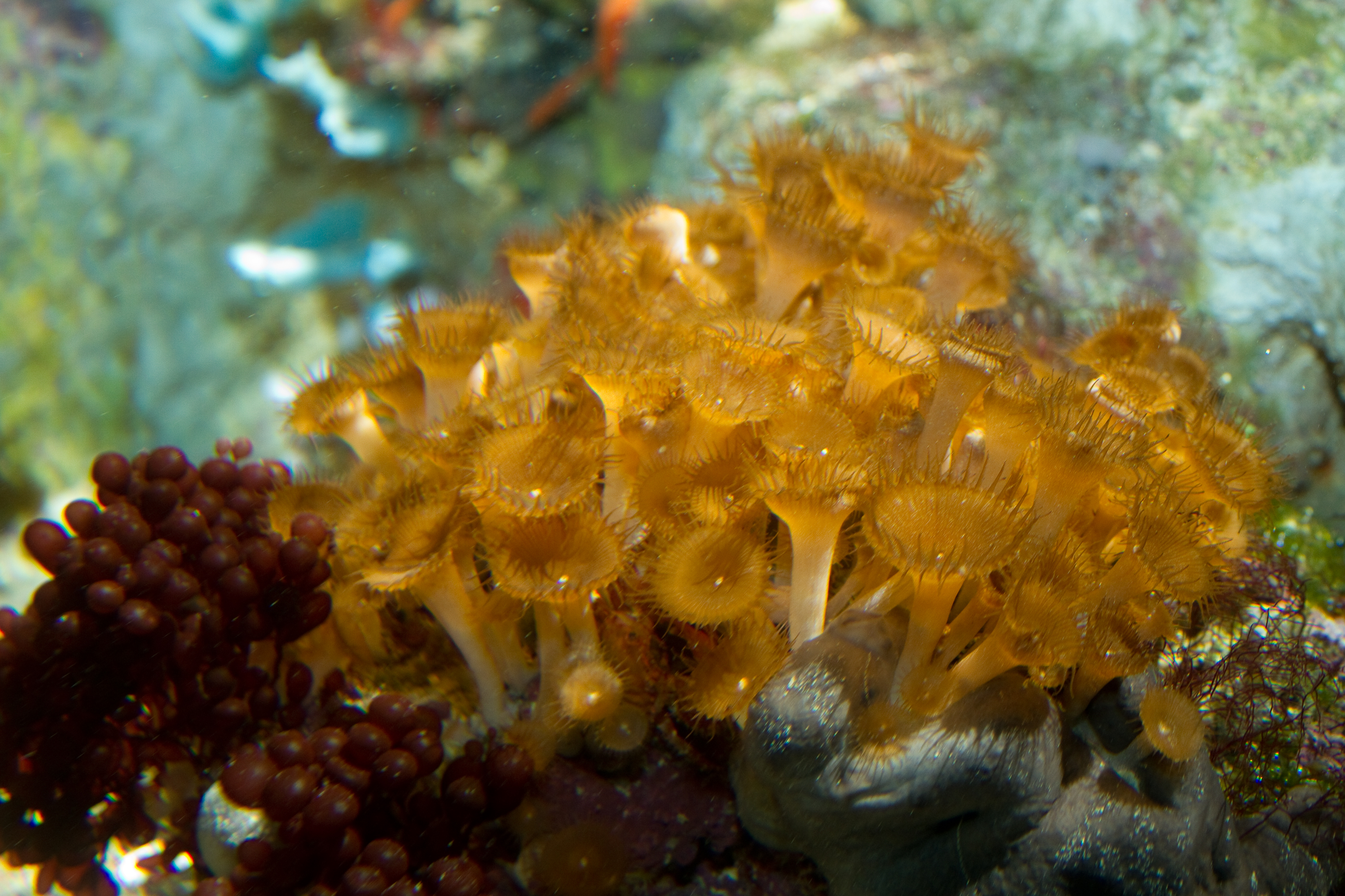 Palythoa variabilis